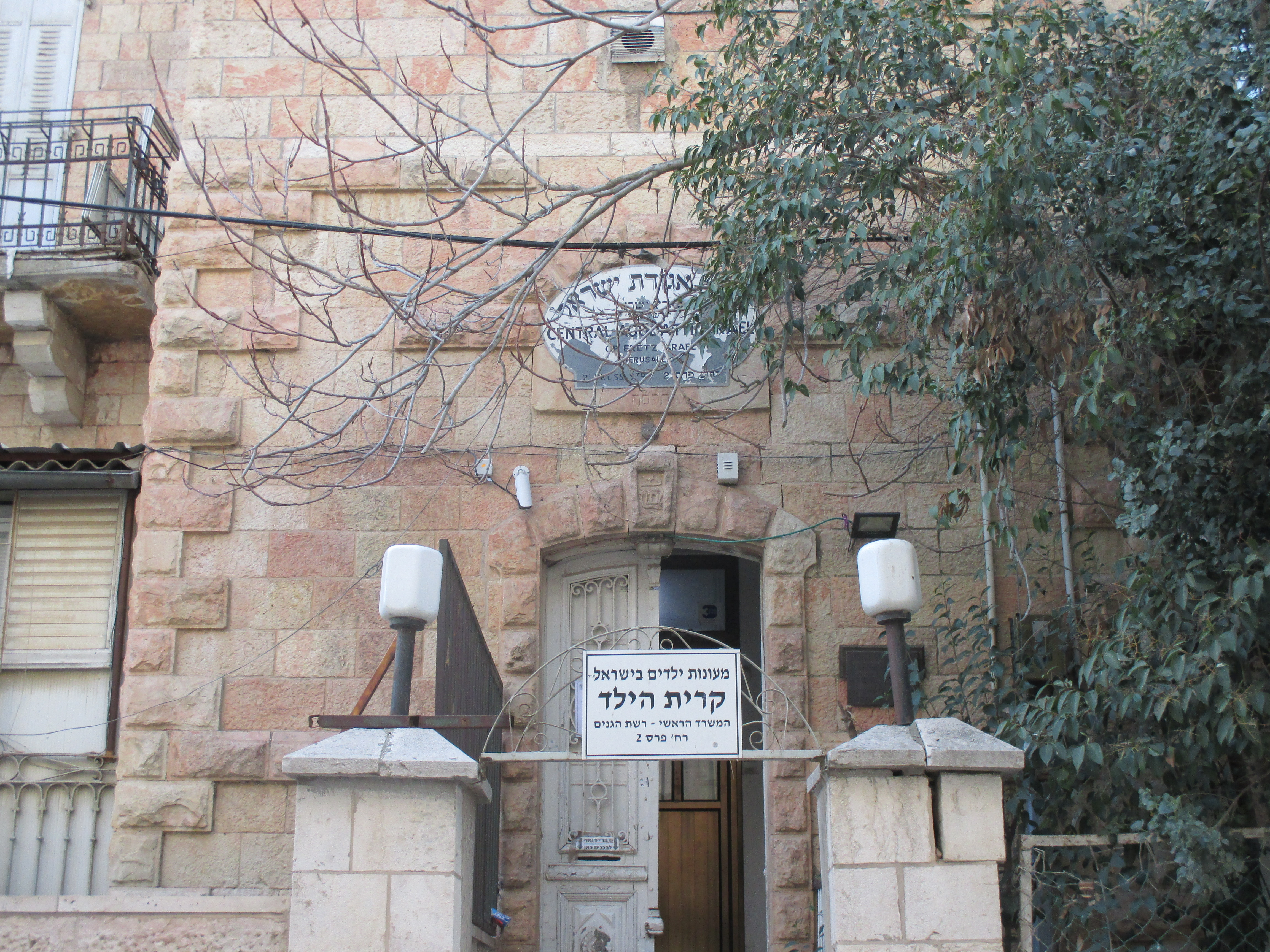 Jerusalem, 2 Yehoshua Press st